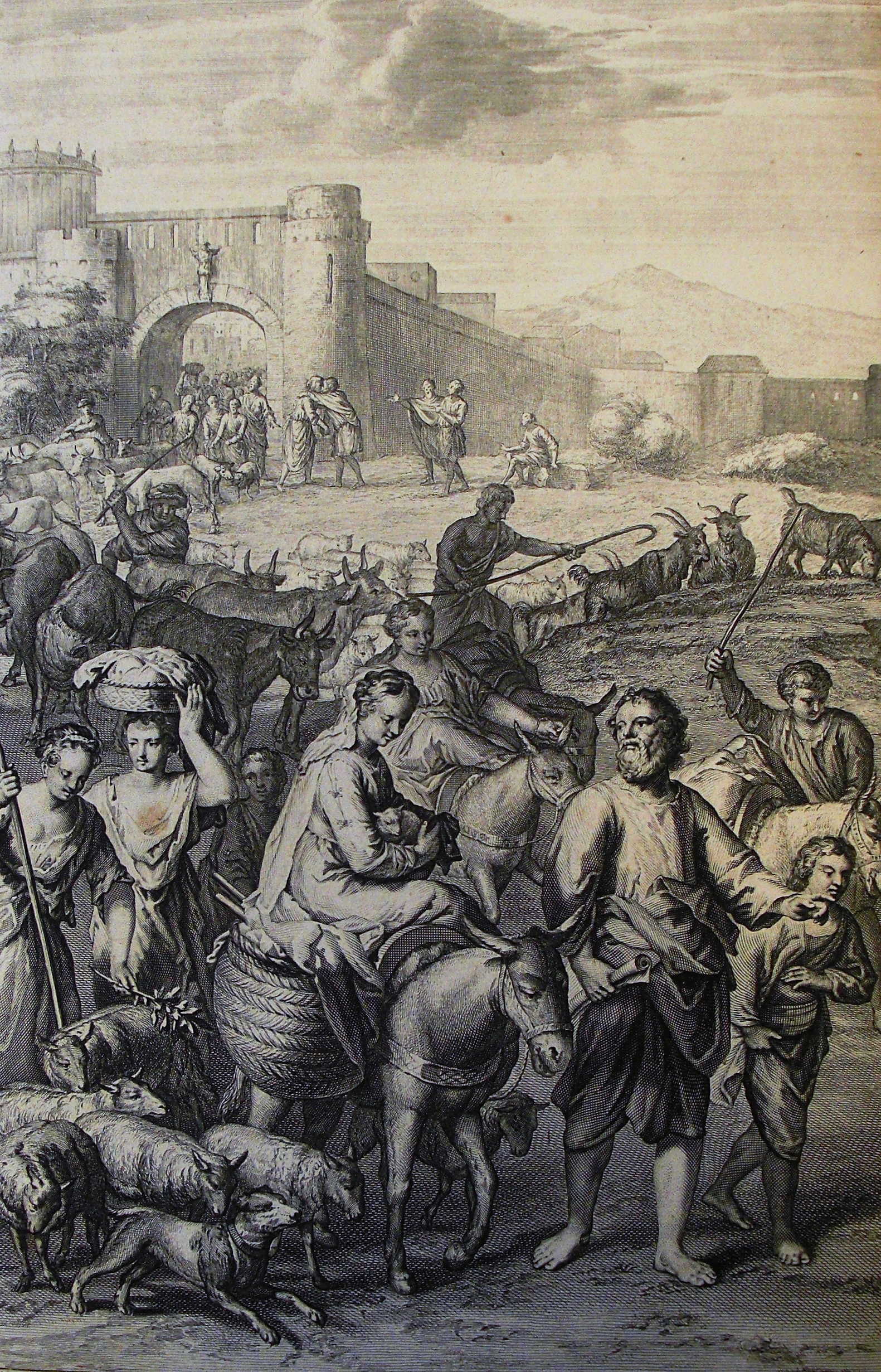 Abraham leaves for Canaan. Genesis cap 12. Hoet